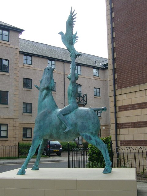 Horse-Rider-Eagle sculpture, Silvermills. There seems to be no obvious reason, beyond aesthetic appeal, why this striking work of art by the Edinburgh-born sculptor, Eoghan Bridge, has been chosen for this location within a modern housing development. 72359